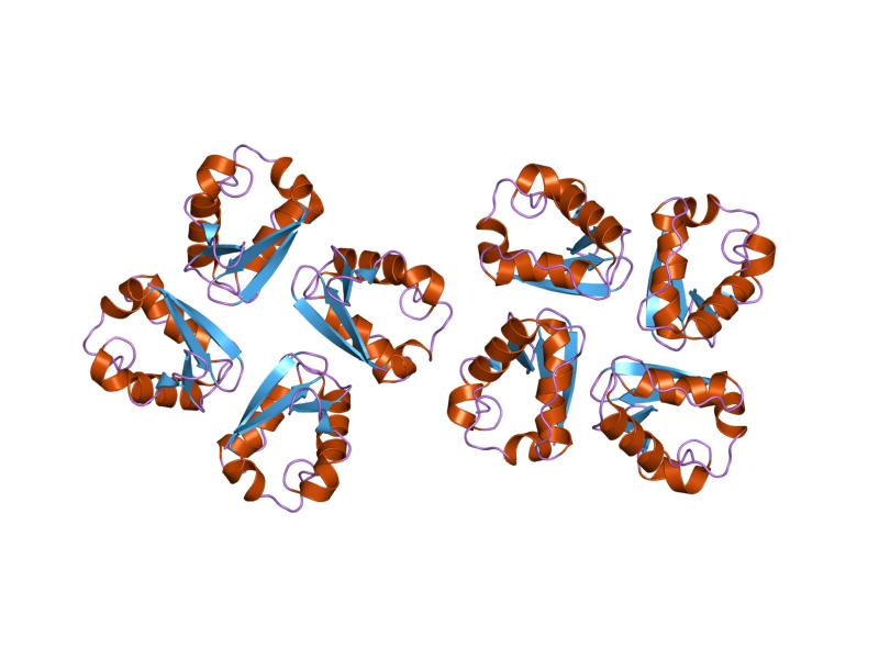 Cartoon representation of the molecular structure of protein registered with 1dsx code.